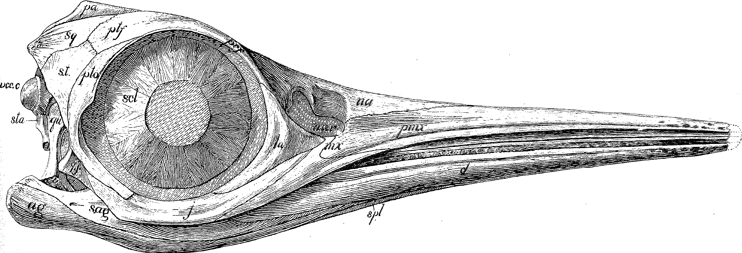 A figure from Notes on Osteology of Baptanodon. With a Description of a New Species.